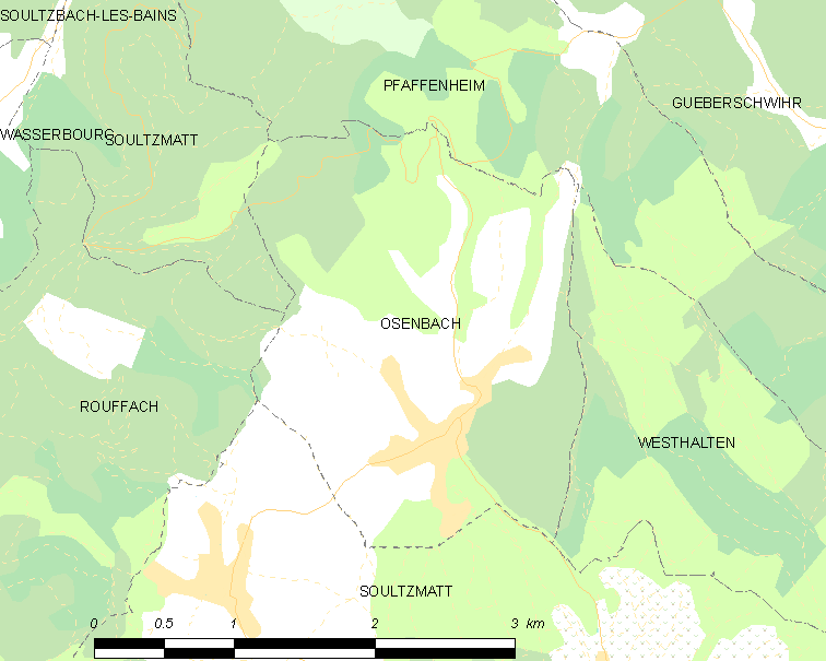 Map of French municipality